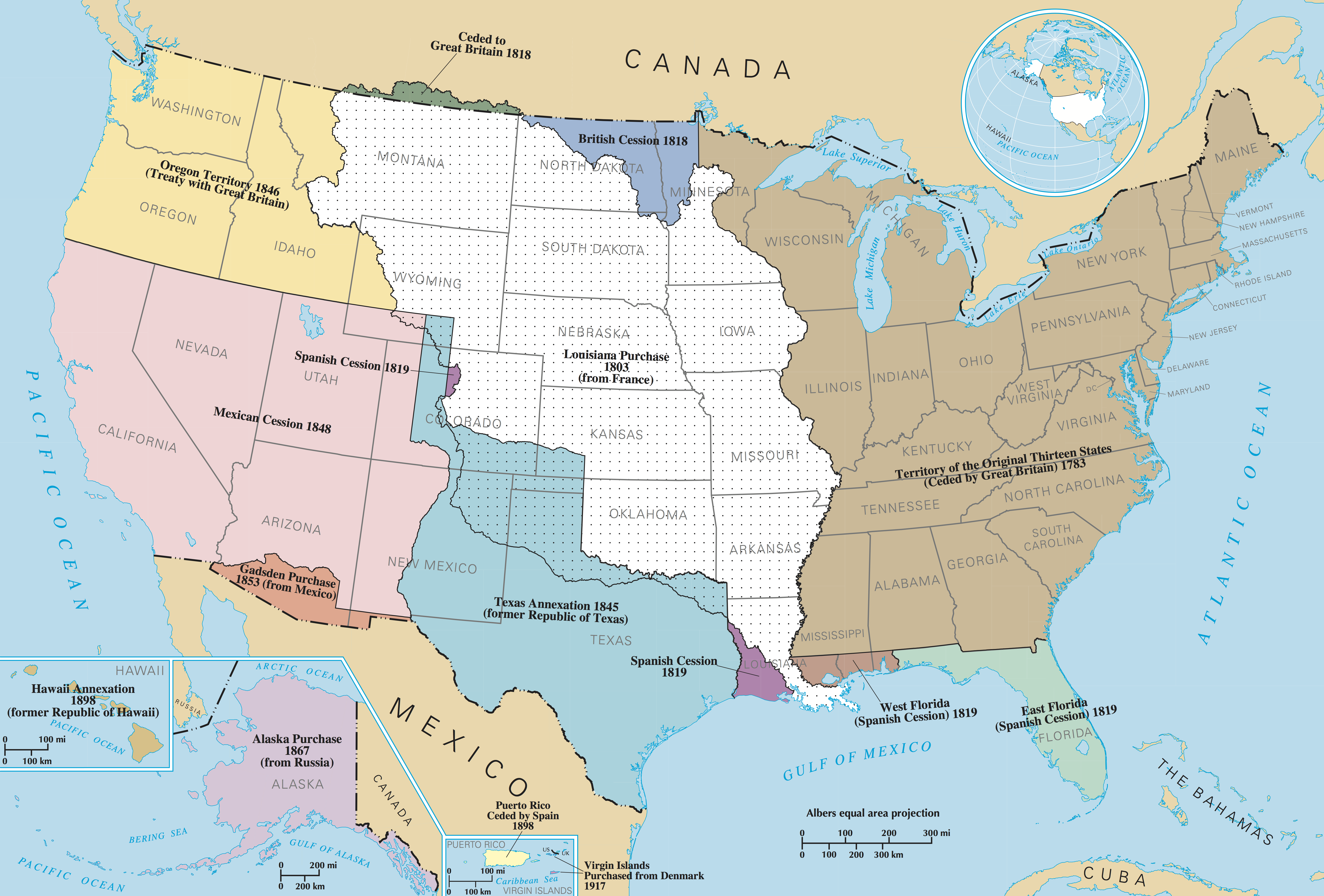 A map of the historical territorial expansion of the United States of America. Not shown: Guam, Northern Mariana Islands, American Samoa, minor outlying islands, former territories